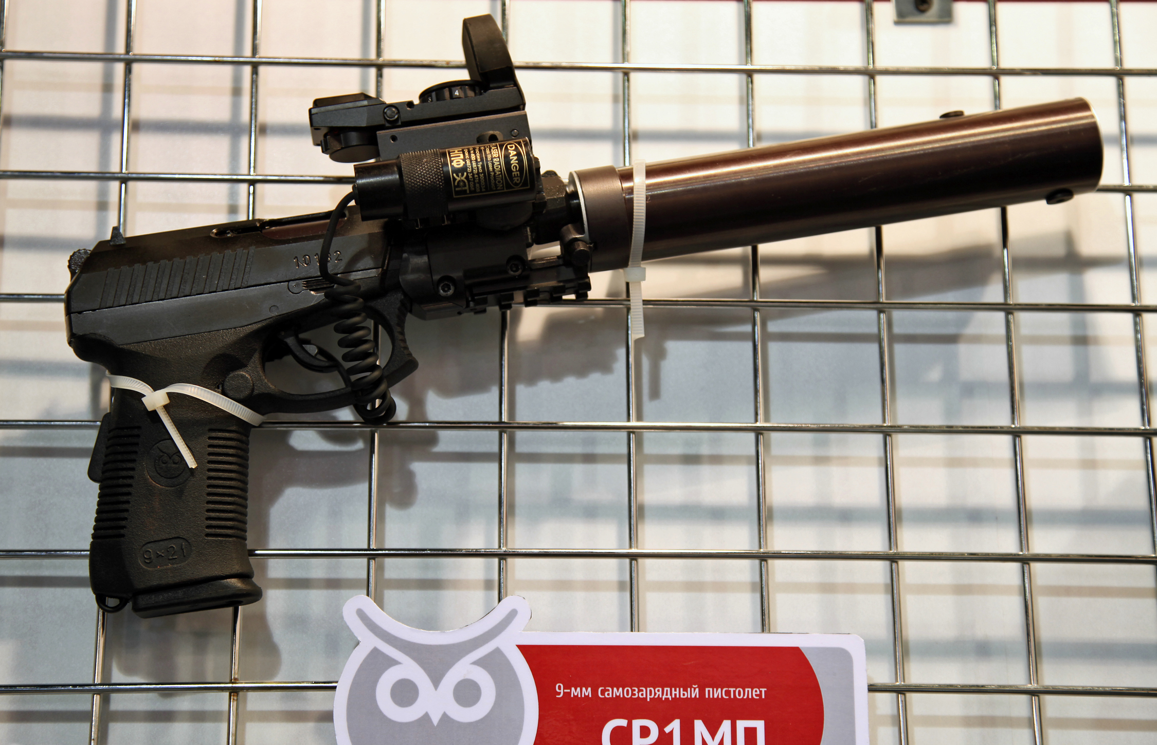 9mm SR1MP pistol at Engineering technologies international forum - 2012